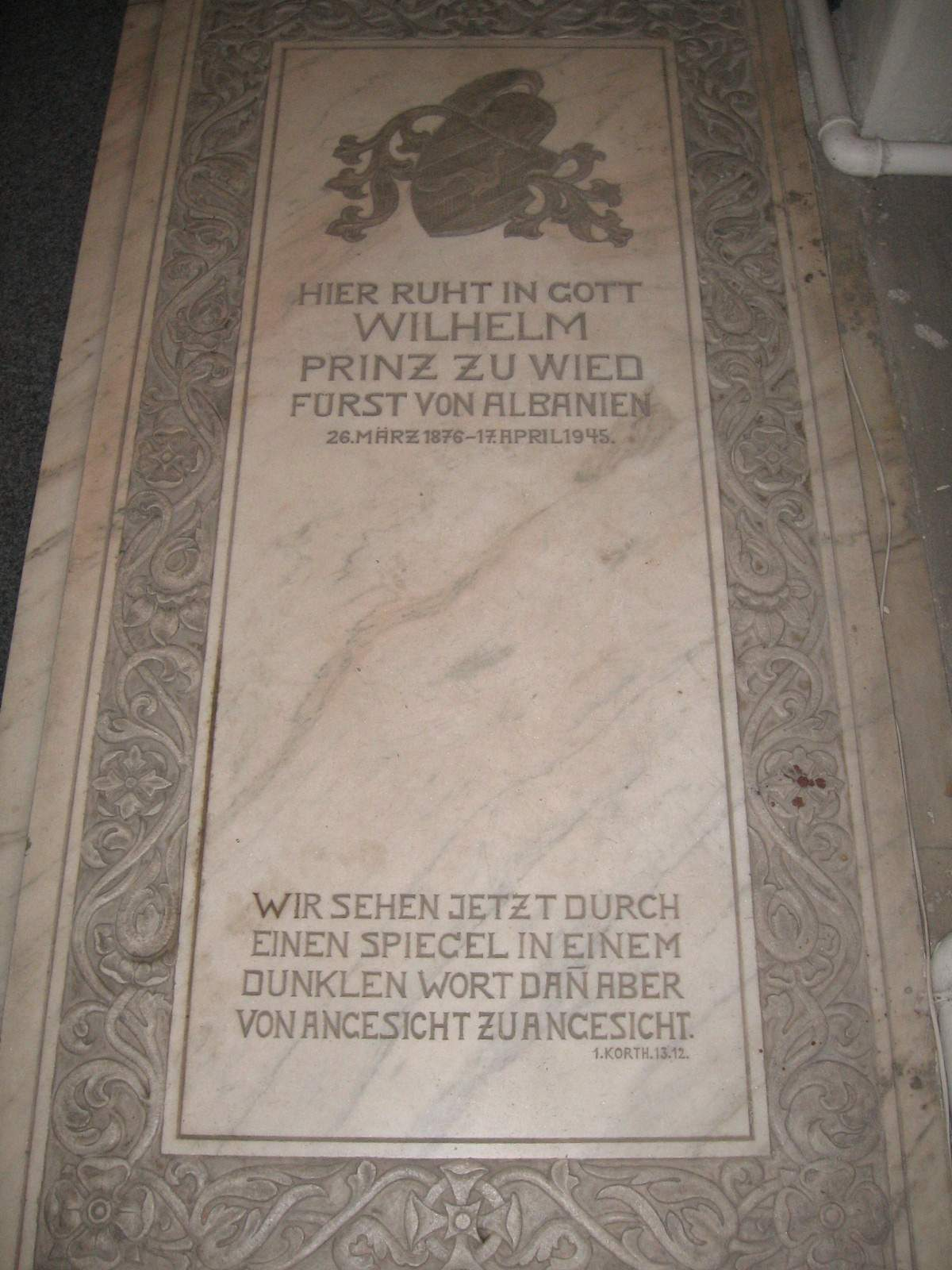 Tombstone of William, Prince of Albania in the Lutheran Church, Bucharest, Romania.